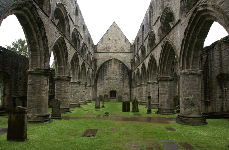 Dunkeld Cathedral, Dunkeld, Perth and Kinross, Scotland - nave interior from the west